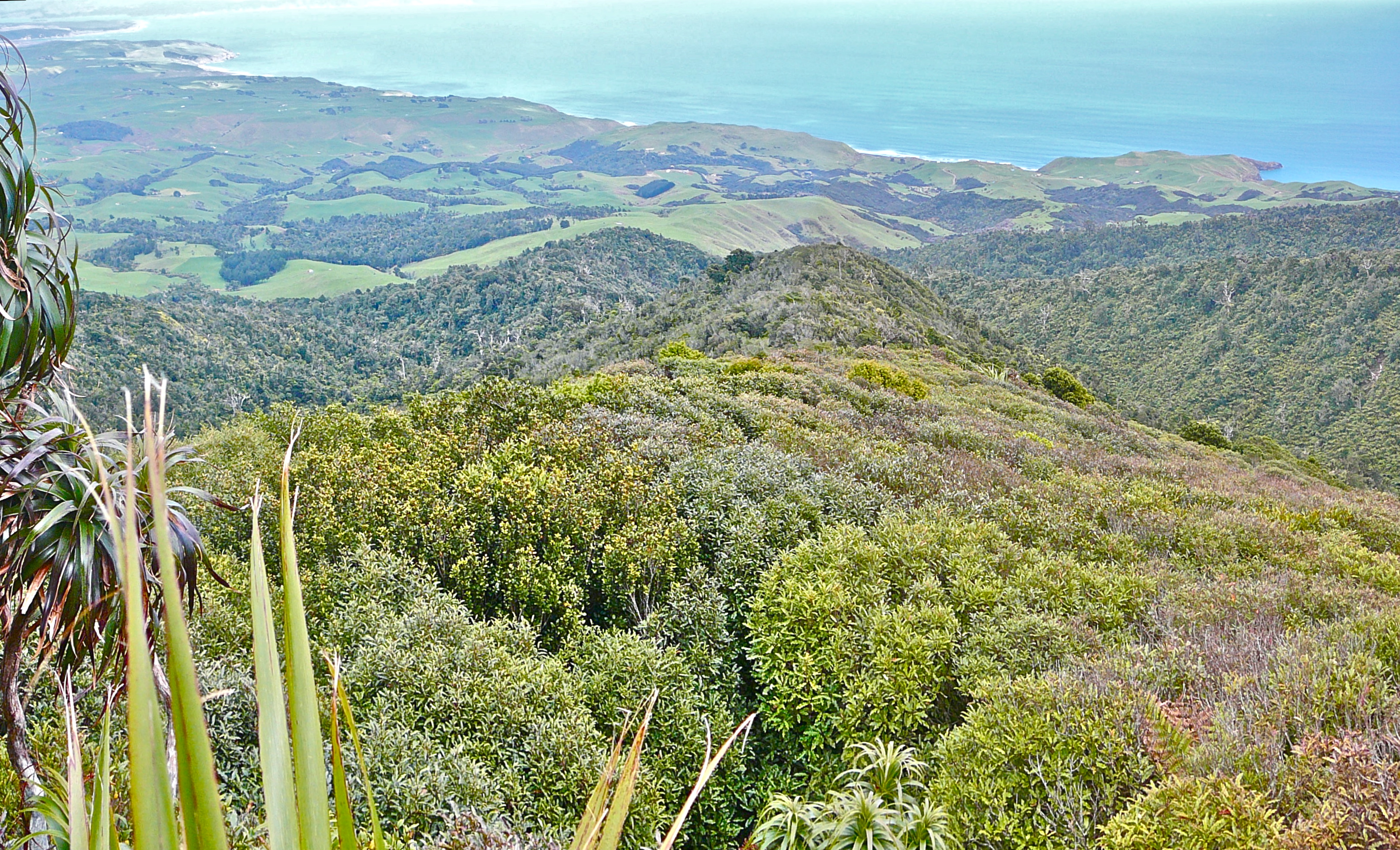 Papanui Pt on right